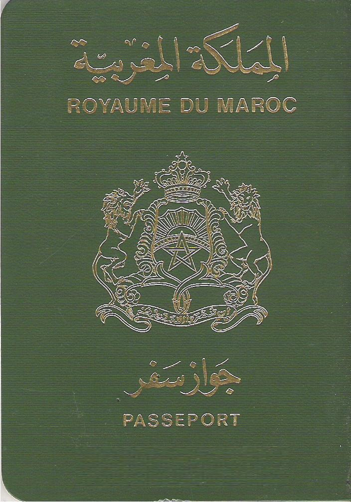 Moroccan Passport Cover